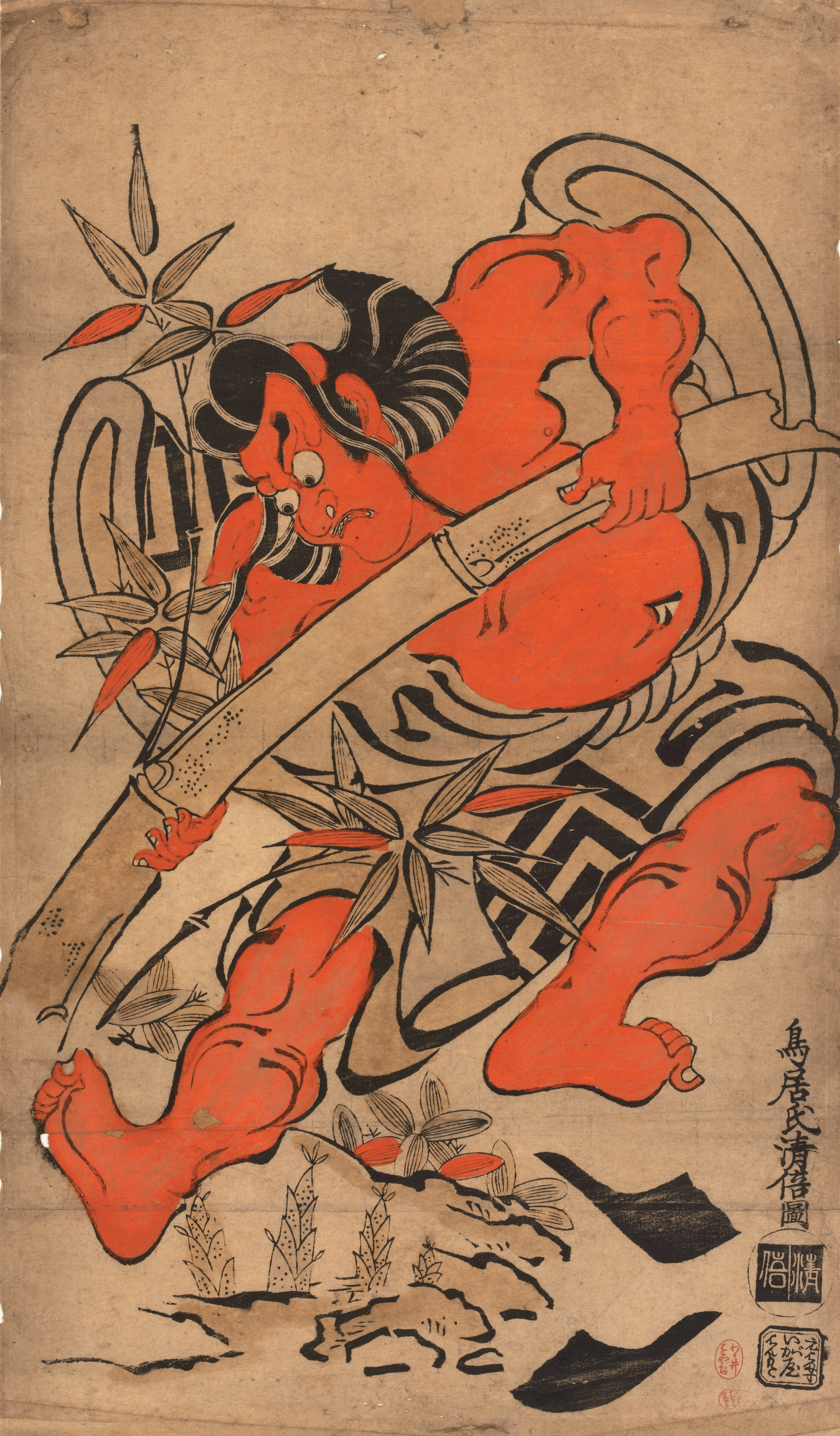 This is likely one of the most famous early Torii school images, and the most famous image of Danjūrō I.The artist's signature is in the lower-righthand corner, just above the seals. Though one might expect it to simply read 鳥居清倍 (Torii Kiyomasu), it in fact read 鳥居氏清倍 (Torii-shi Kiyomasu); shi means family or clan.